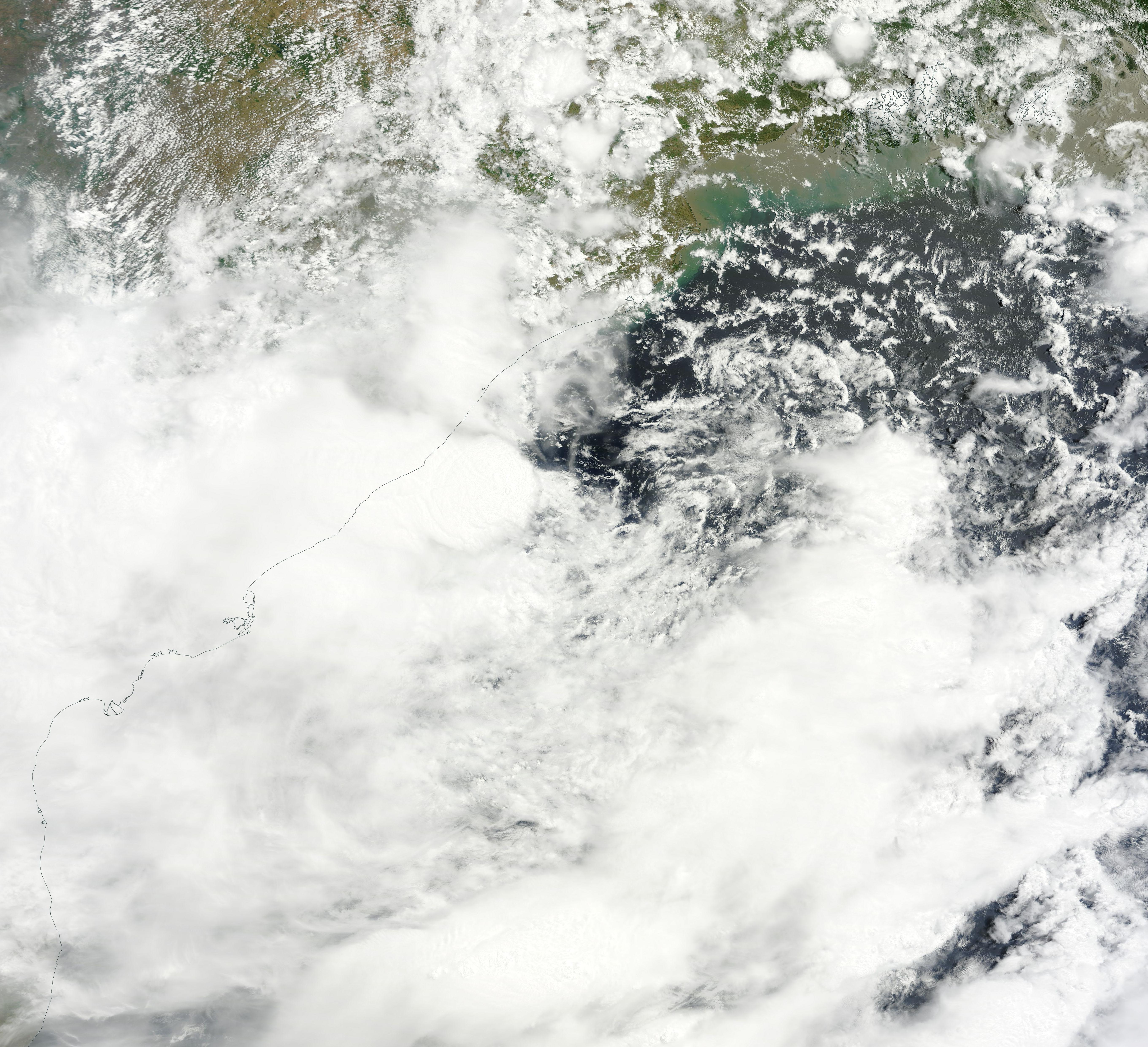 The first depression of the year in the Bay of Bengal, Depression BOB 01 is seen here making landfall over the Odisha coast on June 20. The system developed under the influence of an advancing southwest monsoon